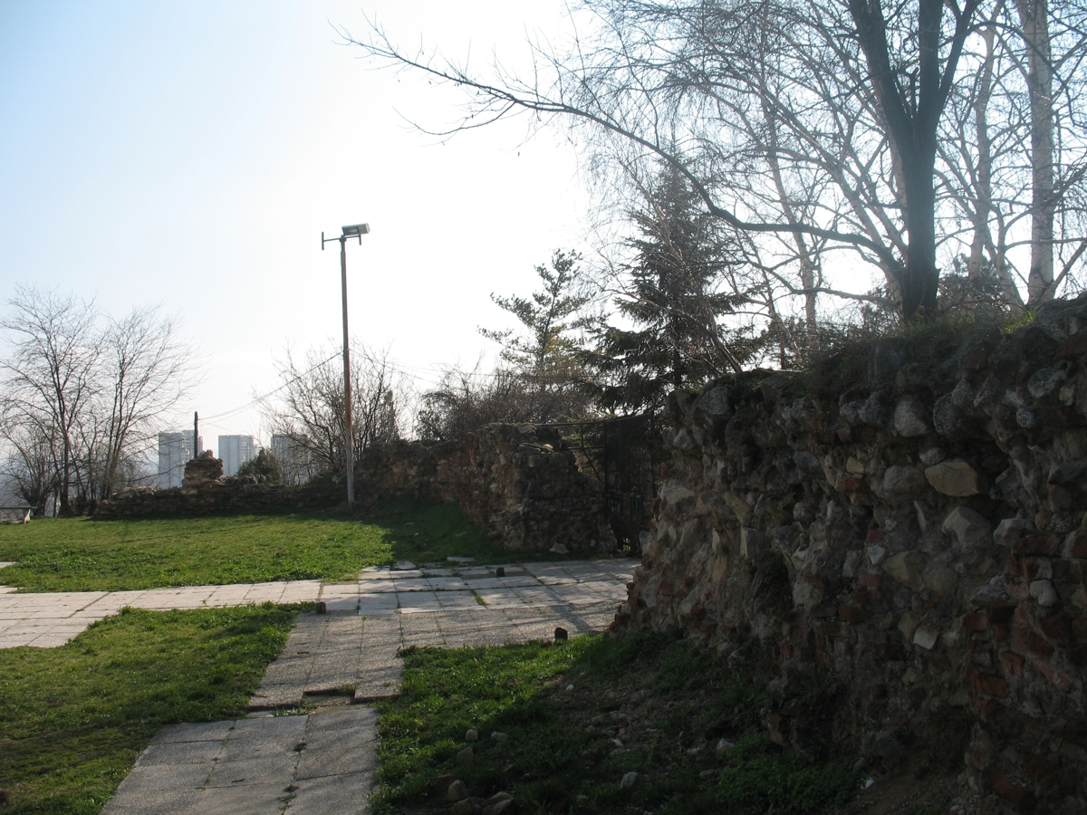 Remains of medieval fortress in Zemun, part of Belgrade Serbia.